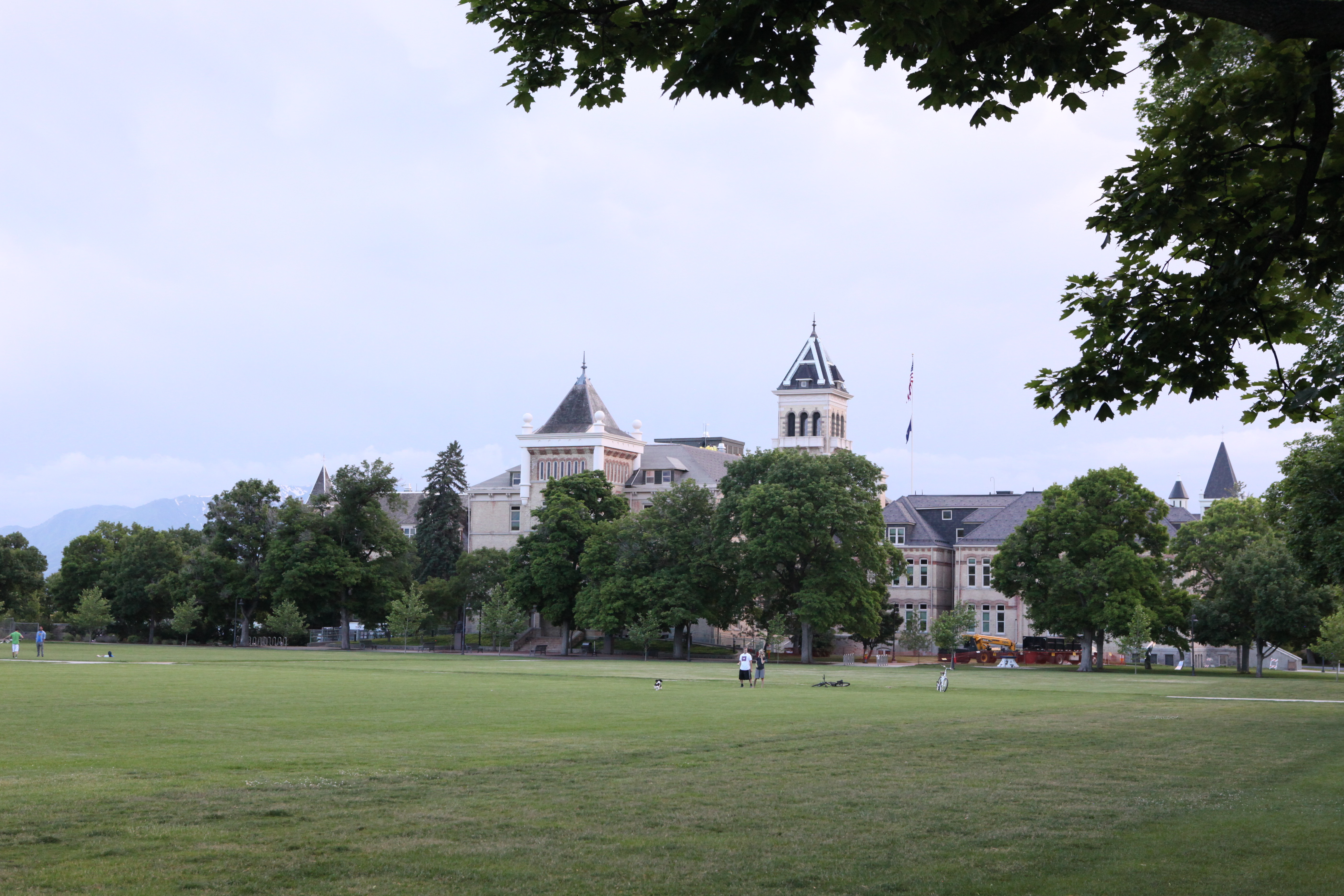 This is an image of Utah State University's Quad during the summer